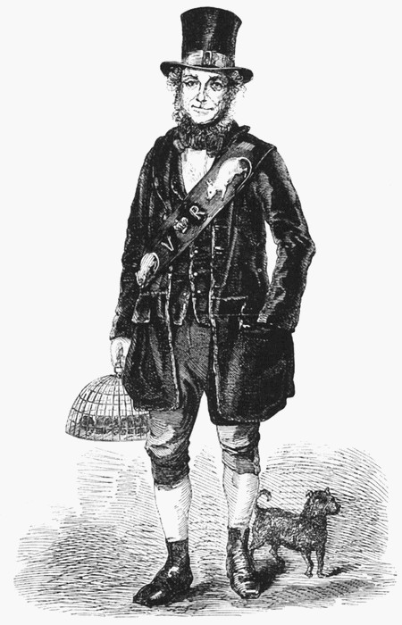 "Jack Black, her majesty's ratcatcher, 1851"